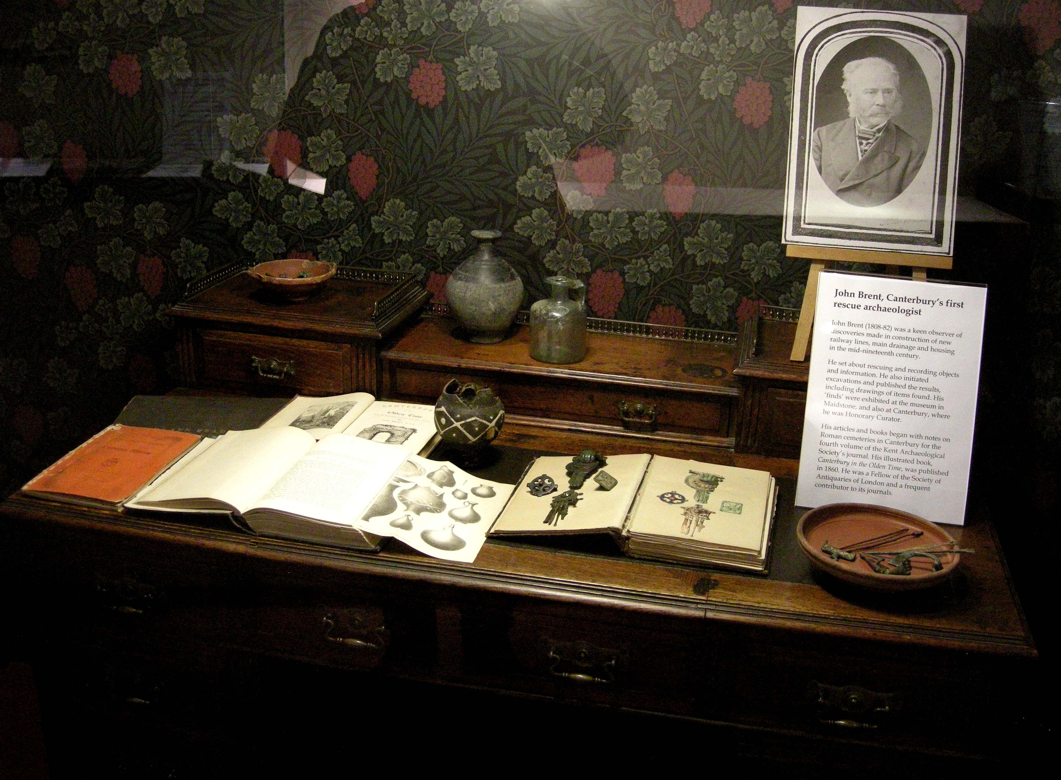 Roman Museum in Butchery Lane, Canterbury, Kent. Display commemorating archaeologist John Brent (1808-82) who was Canterbury's first rescue archaeologist.